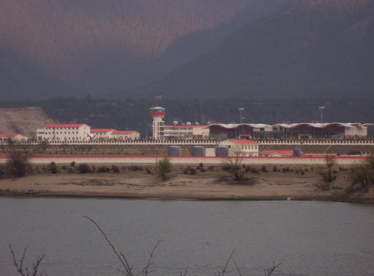 Nyingchi Airport